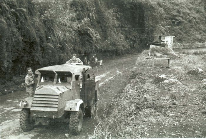 Road with a military armored vehicle near the Puncak-pass. (remark: C15TA armored personnel carrier of Canadian production)